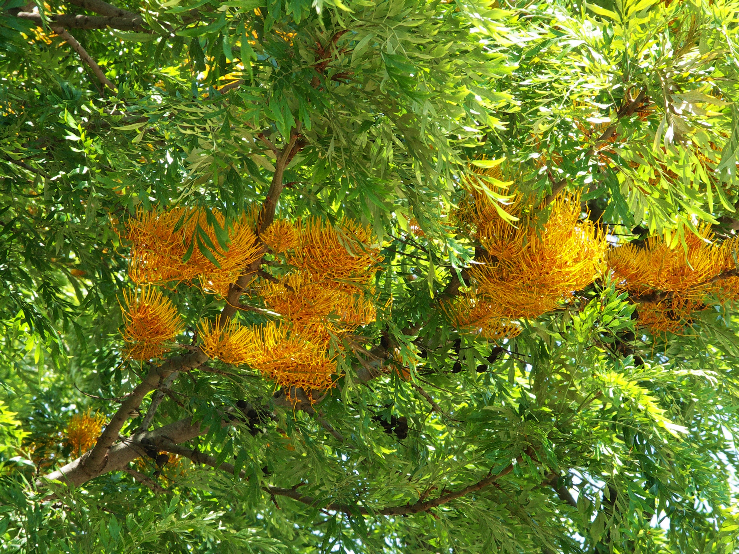 Leaves and flowers of Grevillea robusta tree